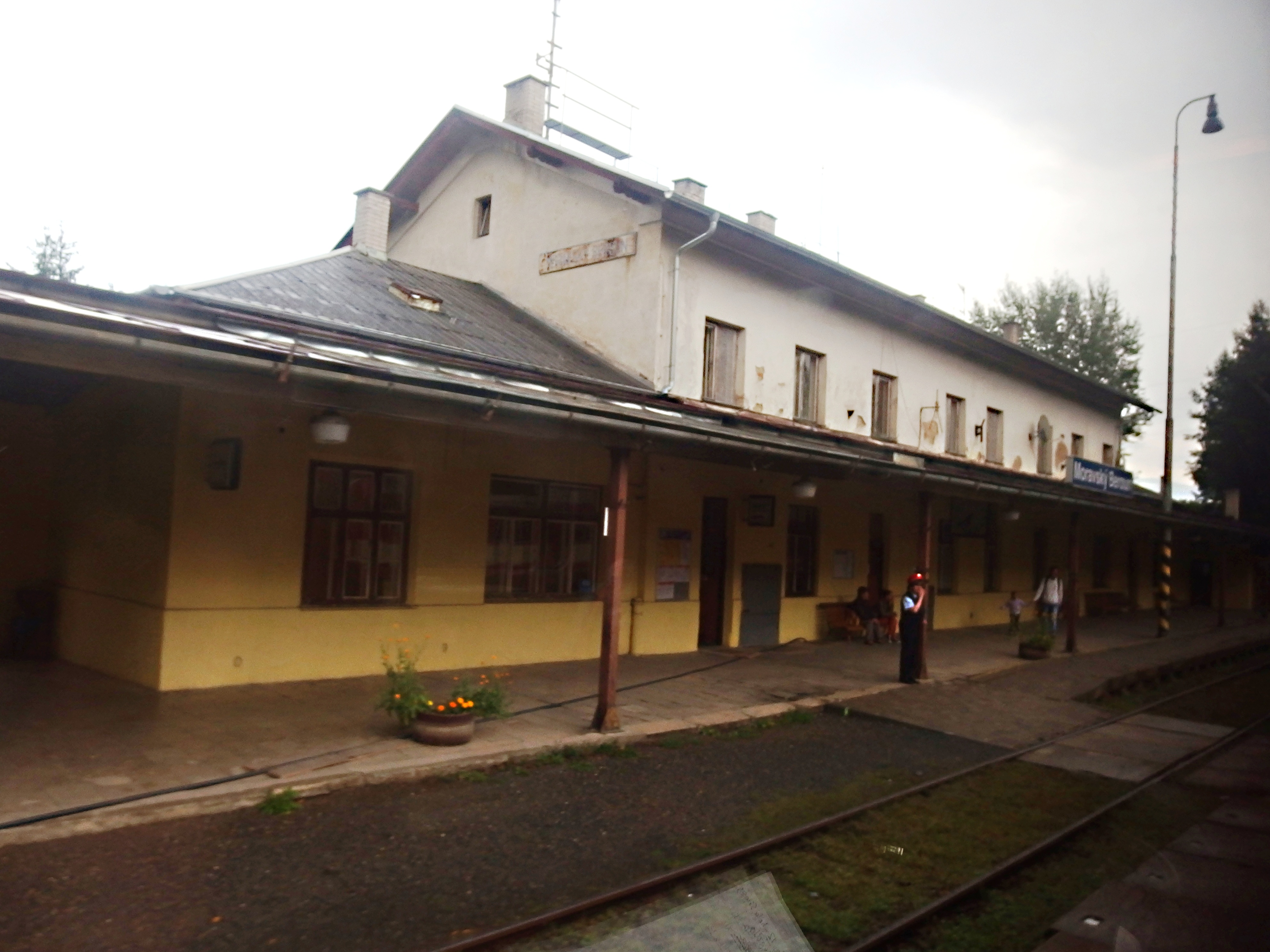 Moravský Beroun, Olomouc District, Czech Republic. Train station.